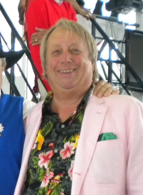 Swedish actor Jan de LavalPlace: M/S Teaterskeppet at sea between Stockholm and Värmdö, Sweden